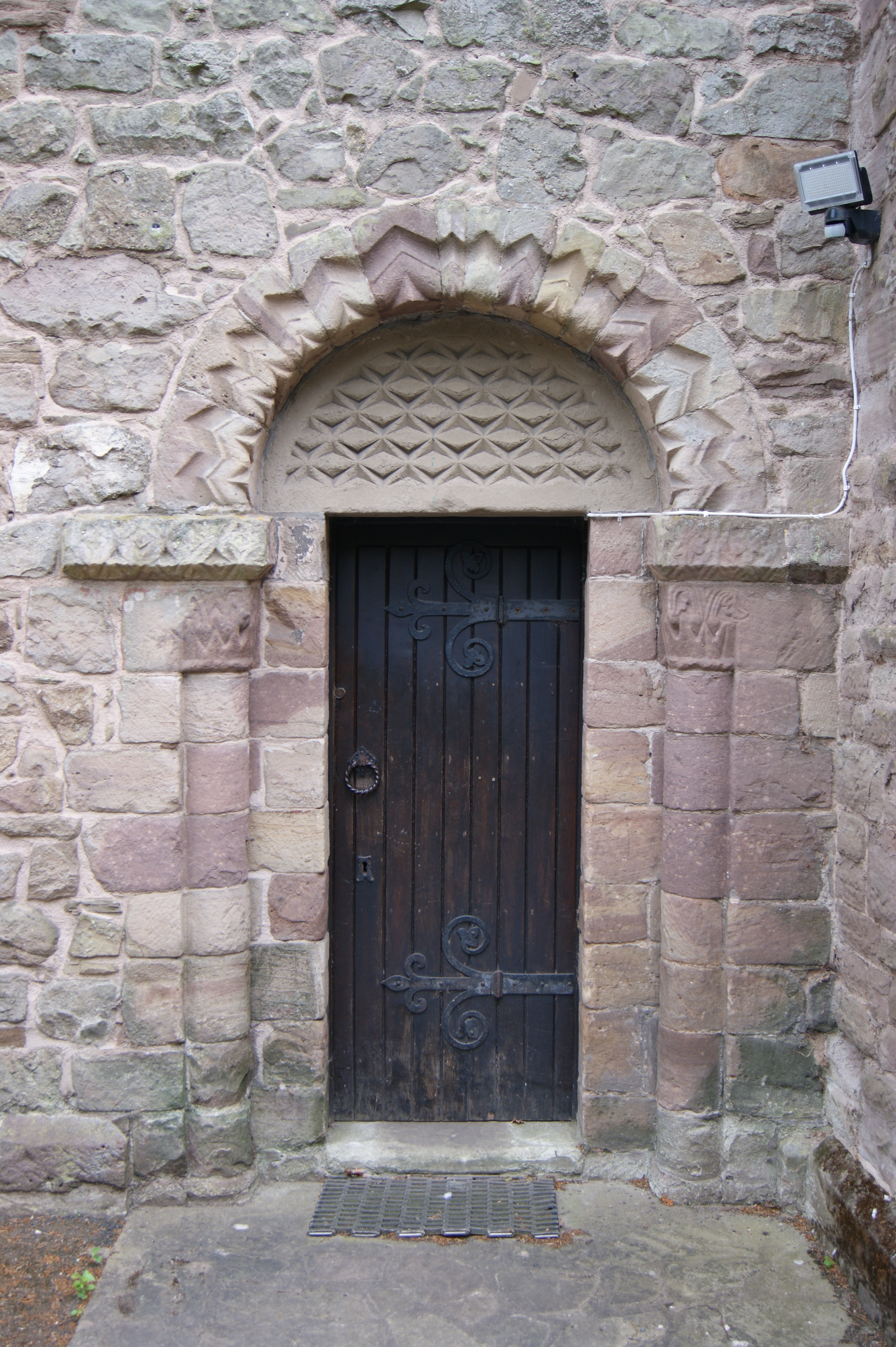 Bromyard Church (St. Peter), 22 June 2015. Pictured is one of three superb 12th Century Norman doors with tympanum.